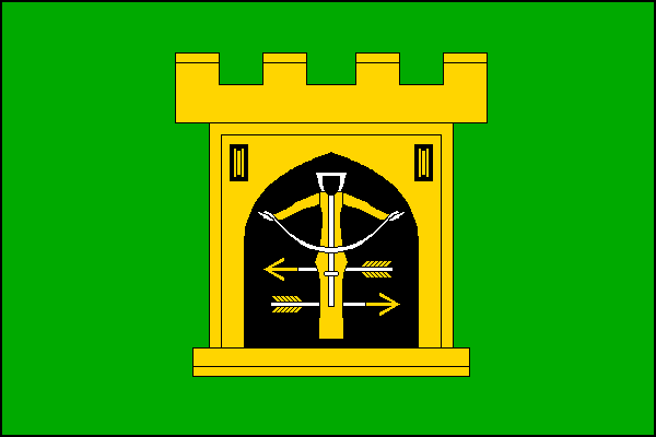 Municipal flag of Lazsko , District Příbram, Czech Republic